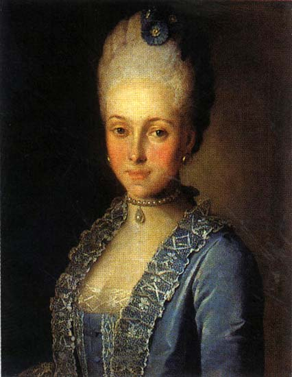 Portrait of Alexandra Perfilyeva, née Countess Tolstaya. 1770s. Oil on canvas, 610 x 570 mm. The Russian Museum, St. Petersburg, Russia.